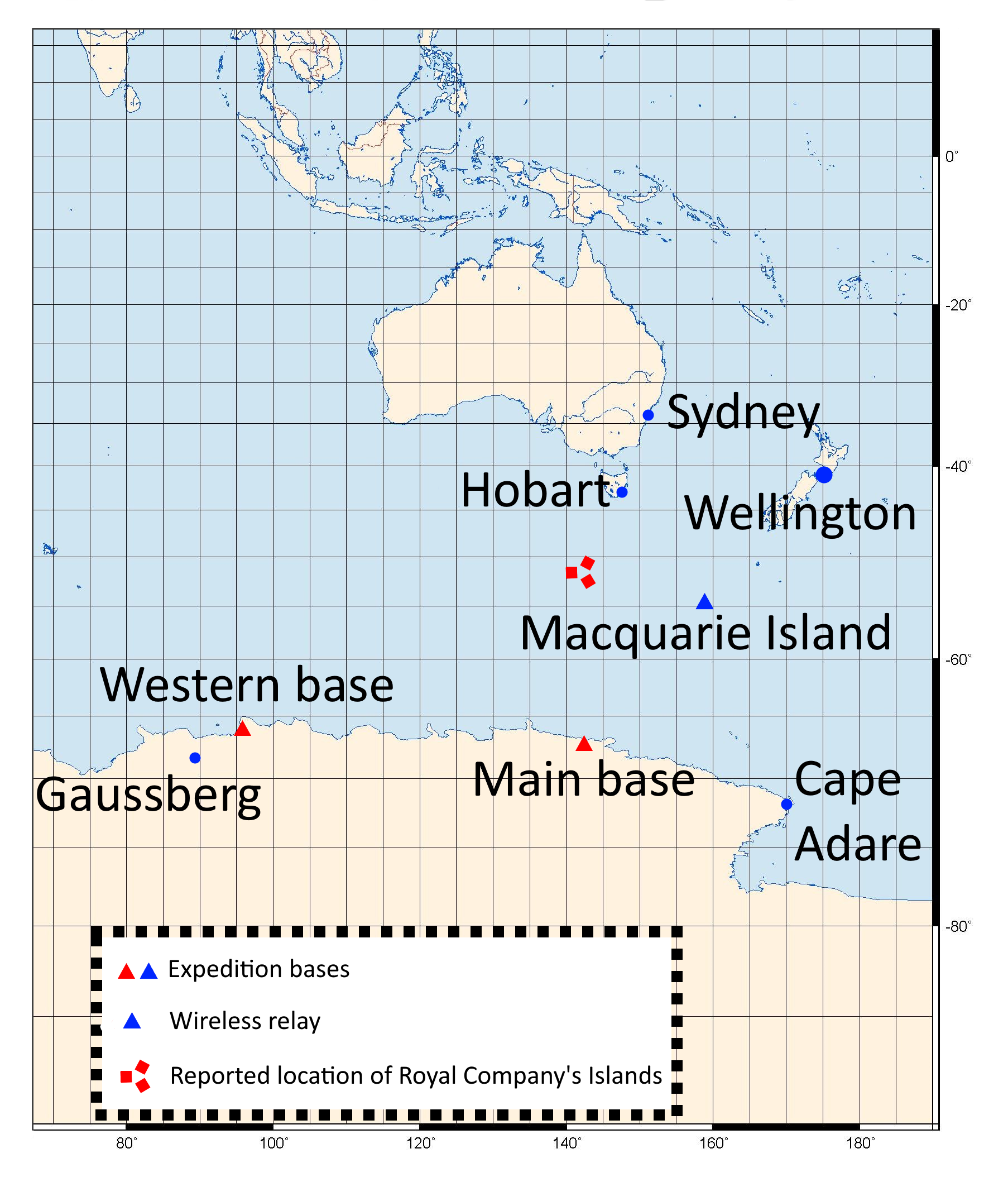 Main points of interest for the Australasian Antarctic Expedition with captions and labels in English